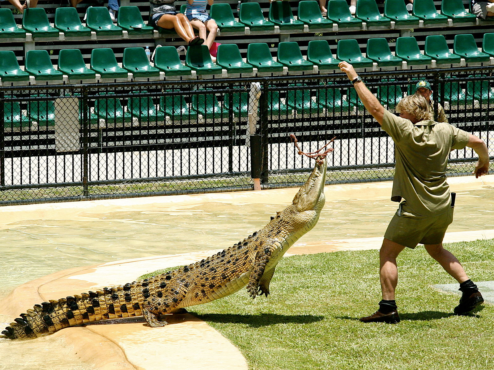 Steve Irwin feeding a crocodile at Australia Zoo.Steve Irwin (RIP)